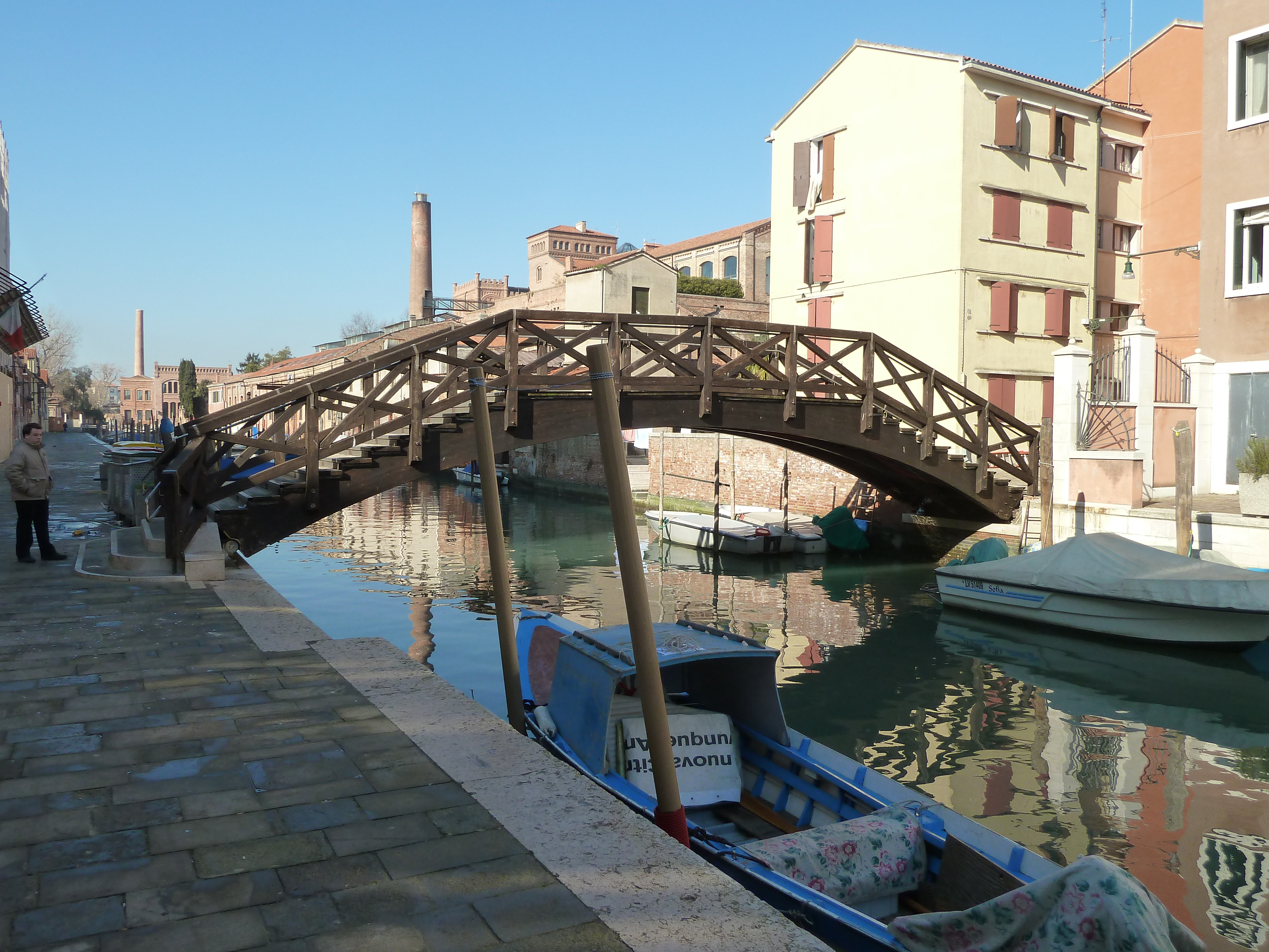 Bridge on rio convertite giudecca